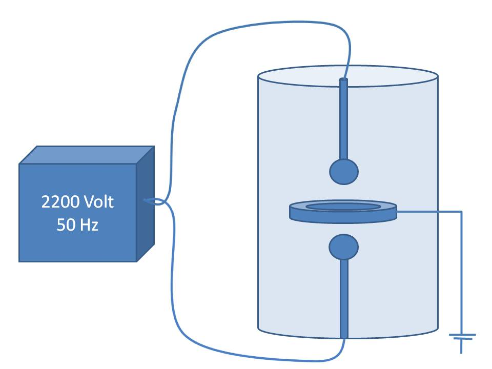 Example of a simple Paul Trap set-up. The AC voltage applied on the electrodes creates an electric quadrupole field that captures charged particles.